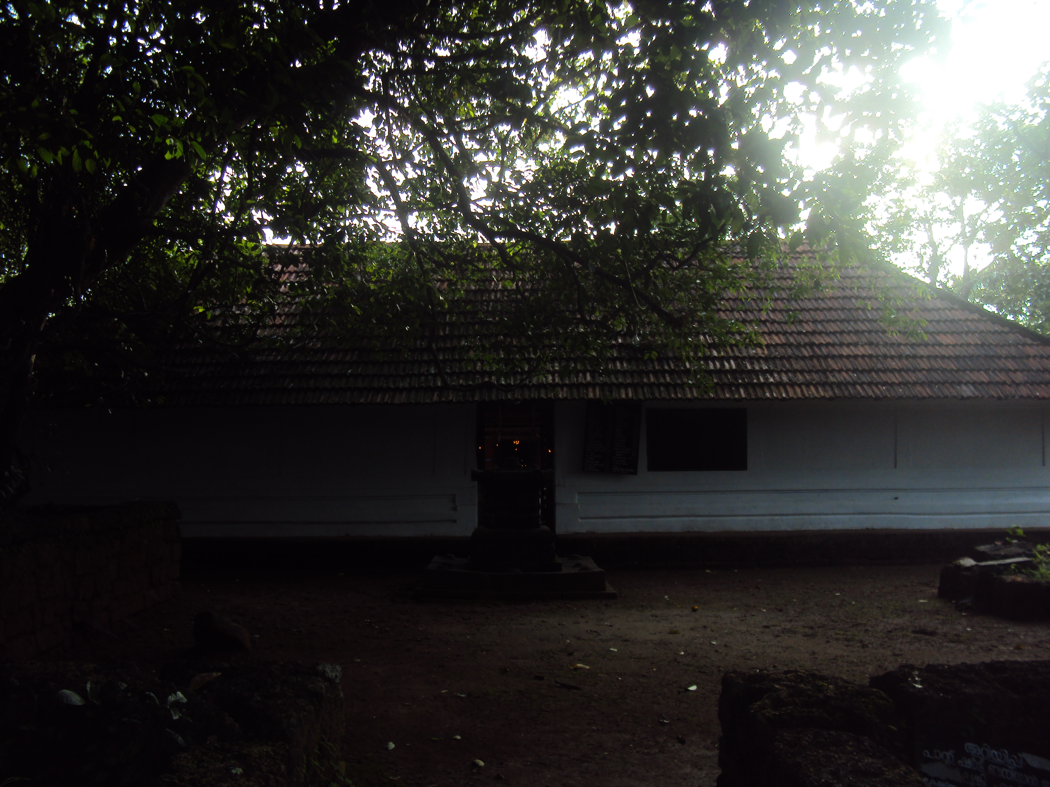 Tonniyil Shiva temple poocholamad